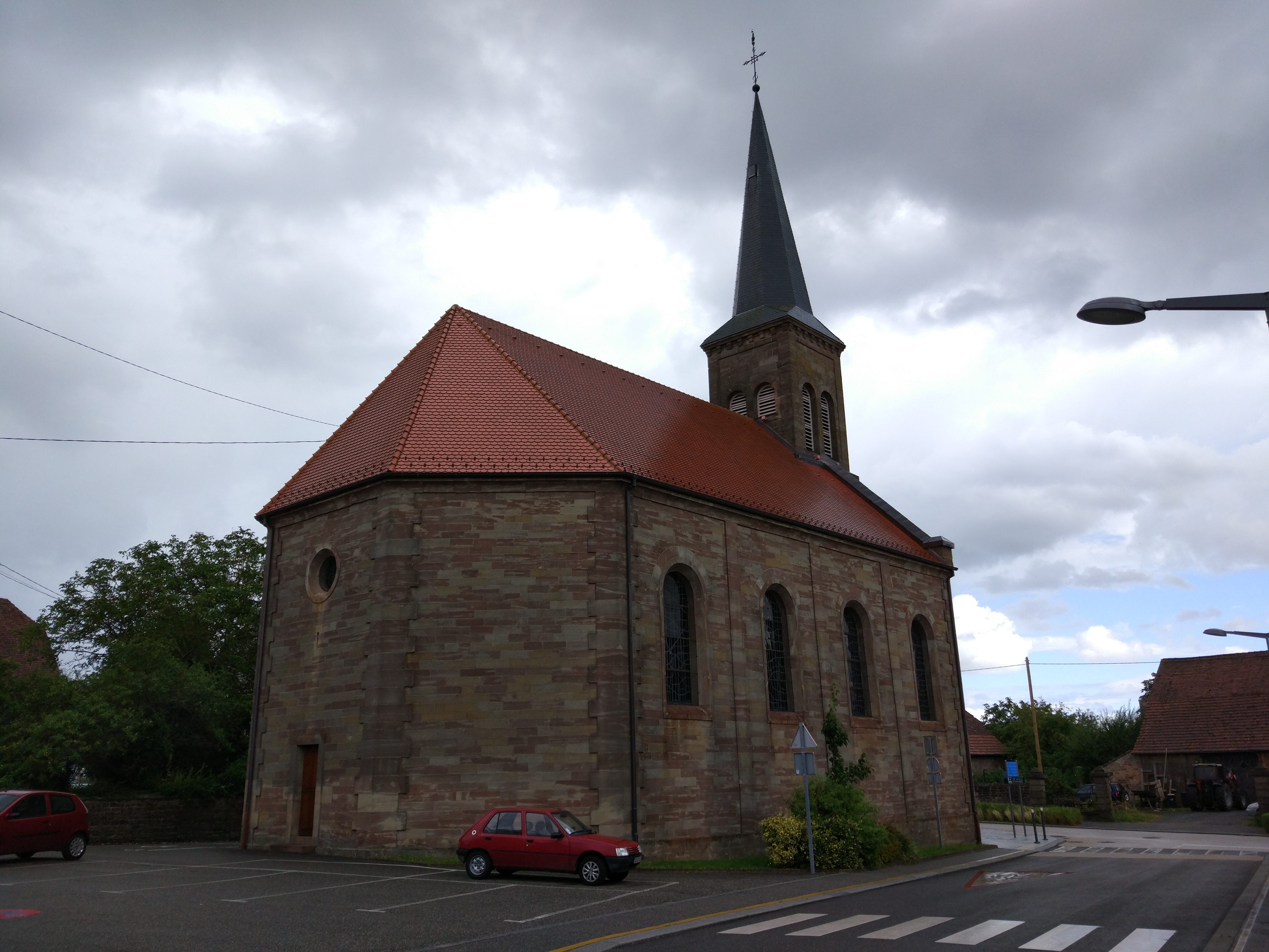 Protestant church of Petersbach, Bas-Rhin, Alsace, France, located at the crossroads Rue de la Division Leclerc and Rue Principale.